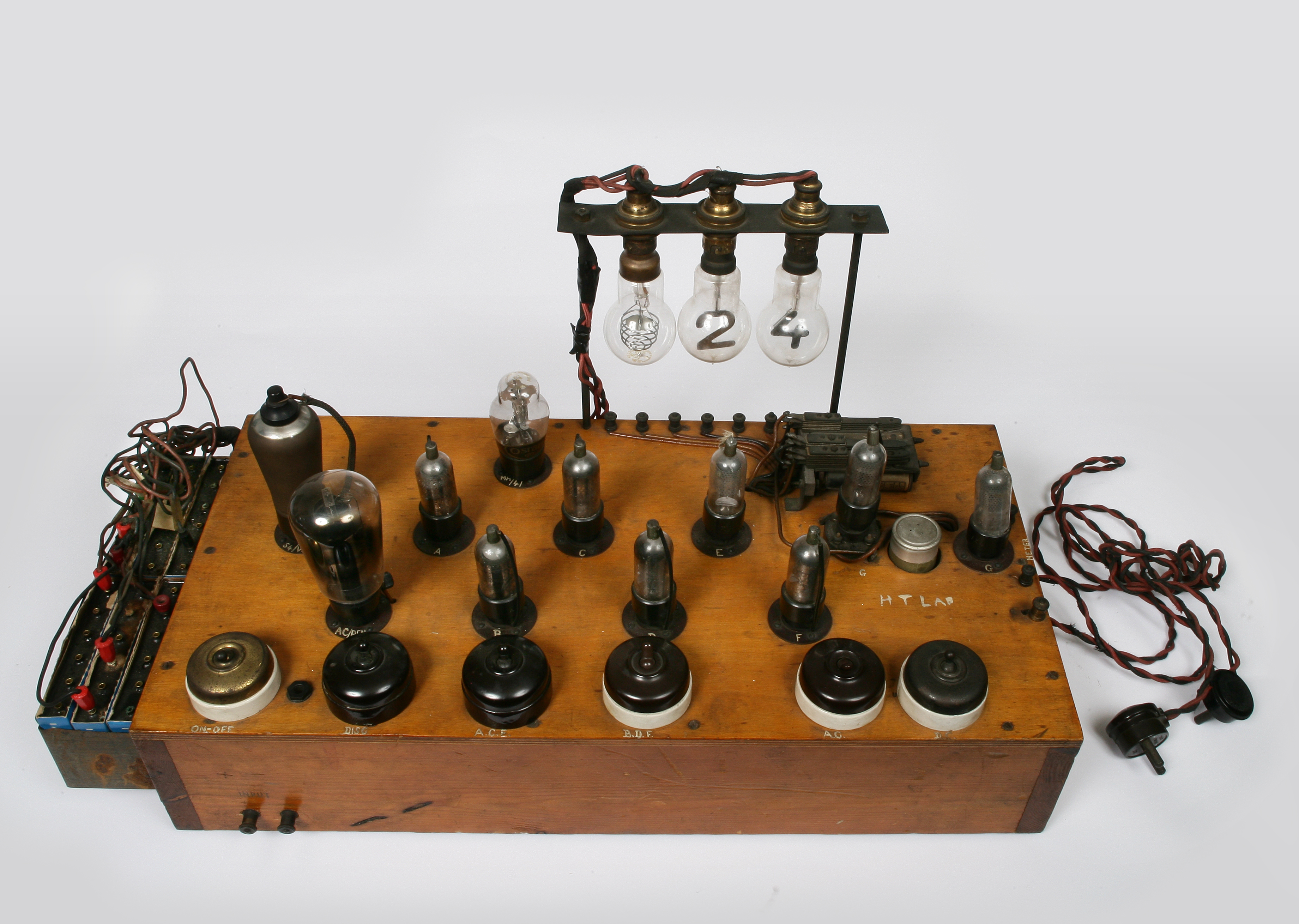 Wynn-Williams' Scale-of-Two Counter in the Cavendish Collection